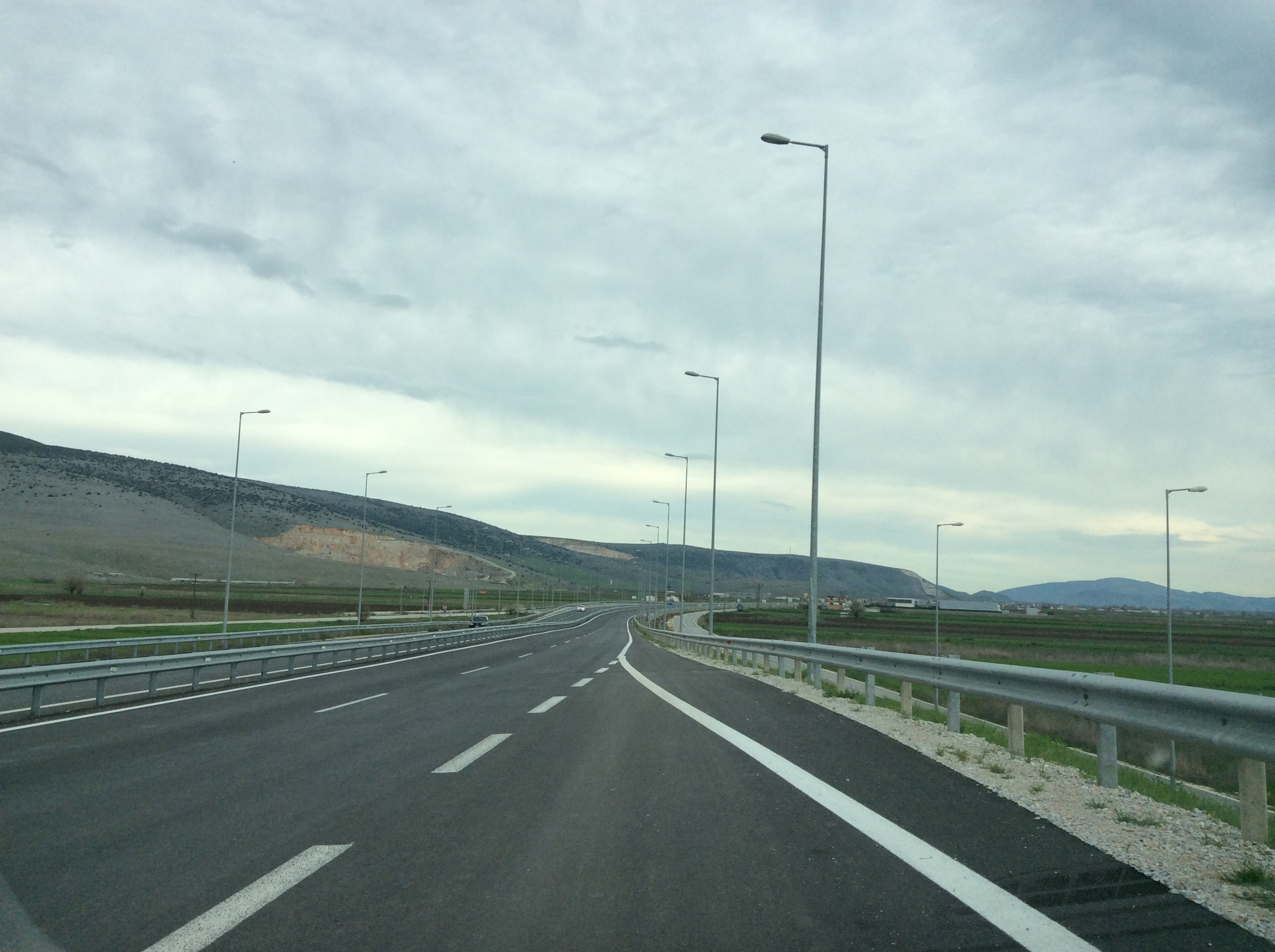 Motorway 4 (E92) connecting Trikala with Larissa